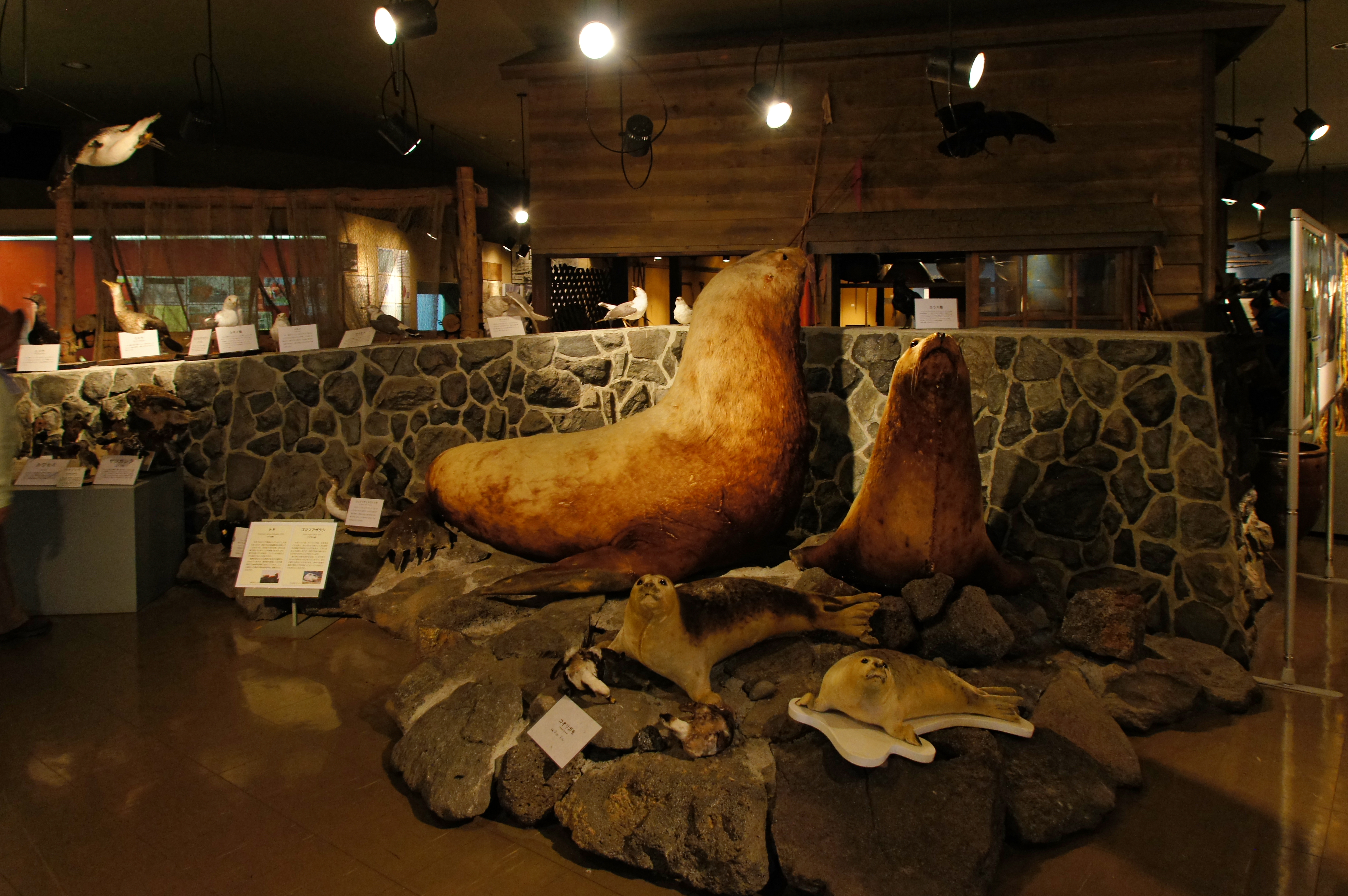 Rishiri_Town_Musuem in Rishiri Island, Hokkaido prefecture, Japan.